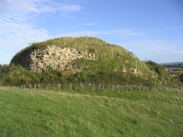 The keep at Wark Castle This large keep on the motte of Wark Castle is now mostly rubble, barely defining the line of the keep walls below a blanket of scrub. The castle dates back to the early 12th century. (Source: Borders and Berwick, An Architectural Guide by Charles Alexander Strang)